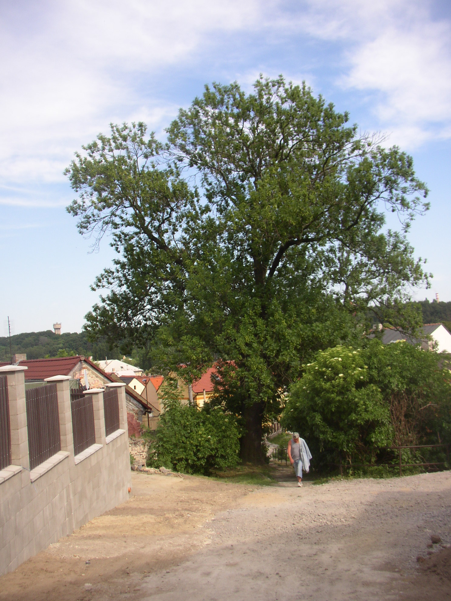 Protected example of Common Ash (Fraxinus excelsior) in Švermov (northern suburb of Kladno city), Czech Republic.